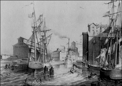 1866 view of a grain elevator on the Chicago River operated by Ira Munn and George L. Scott